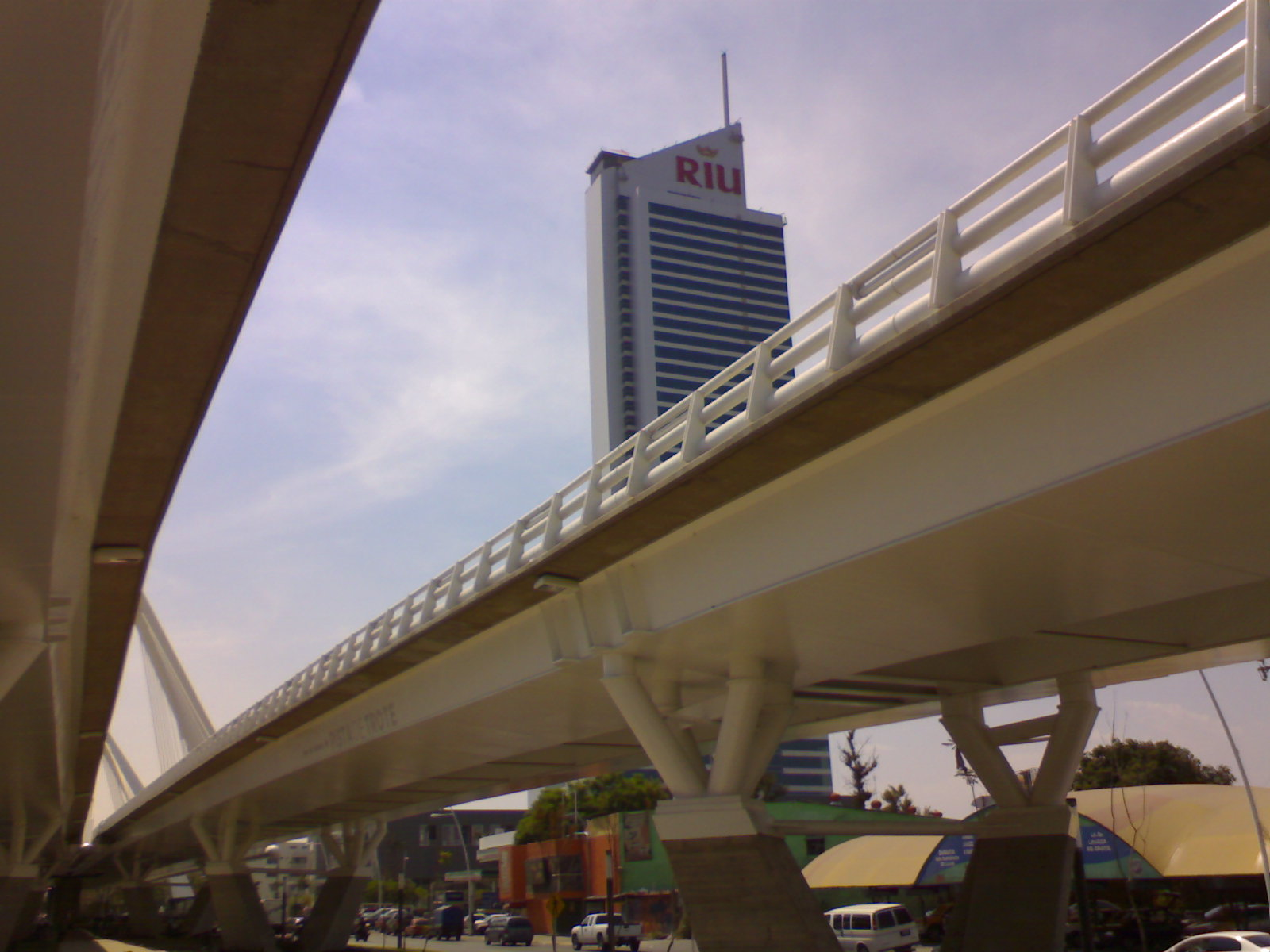 Hotel Riu Plaza Gudalajara 2011 jun 16